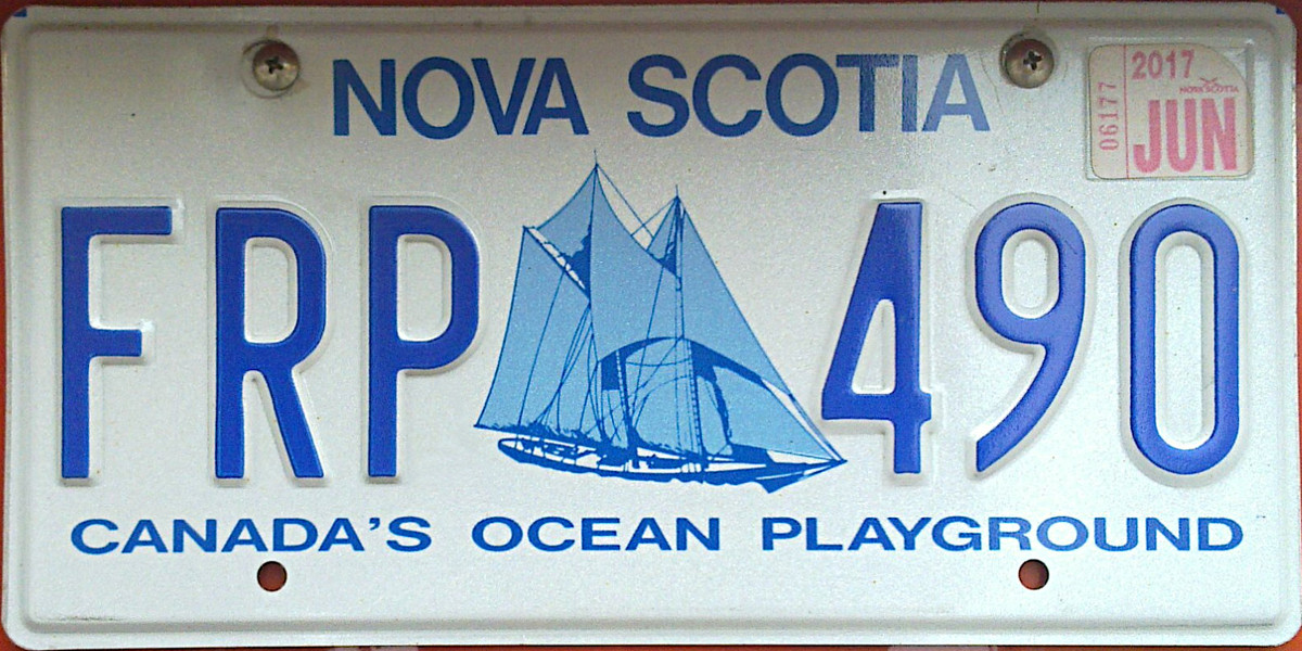 License plate from Nova Scotia